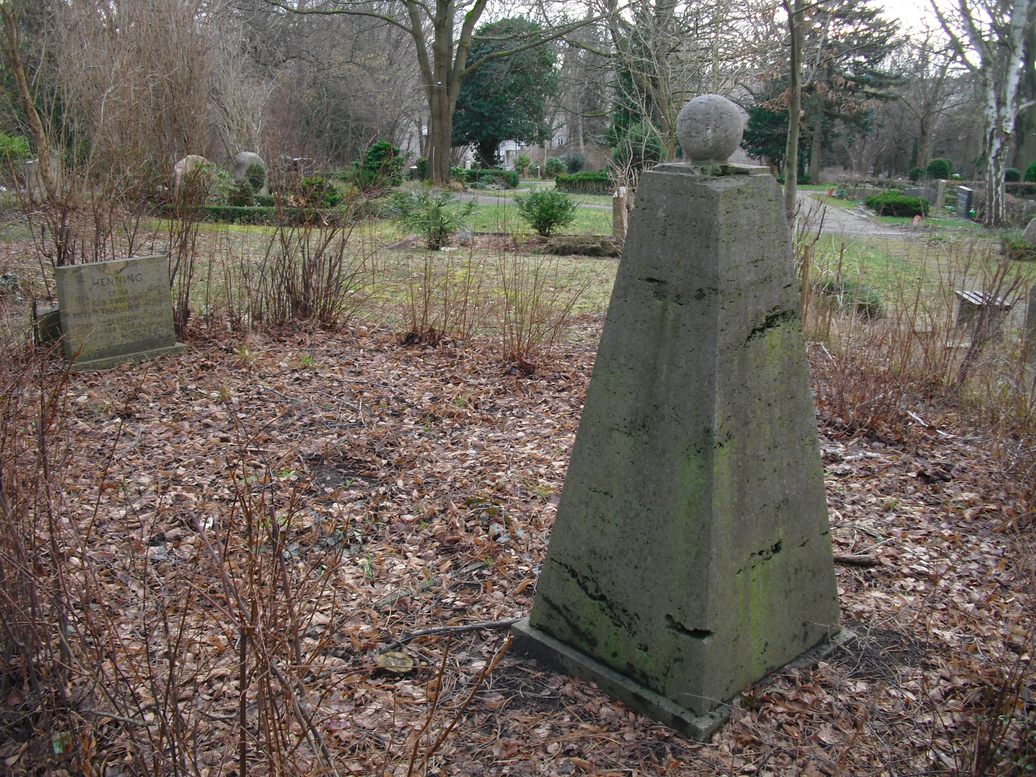 Grave of German architect and sculptor Paul Rudolf Henning in Friedhof Steglitz, Berlin-Steglitz.